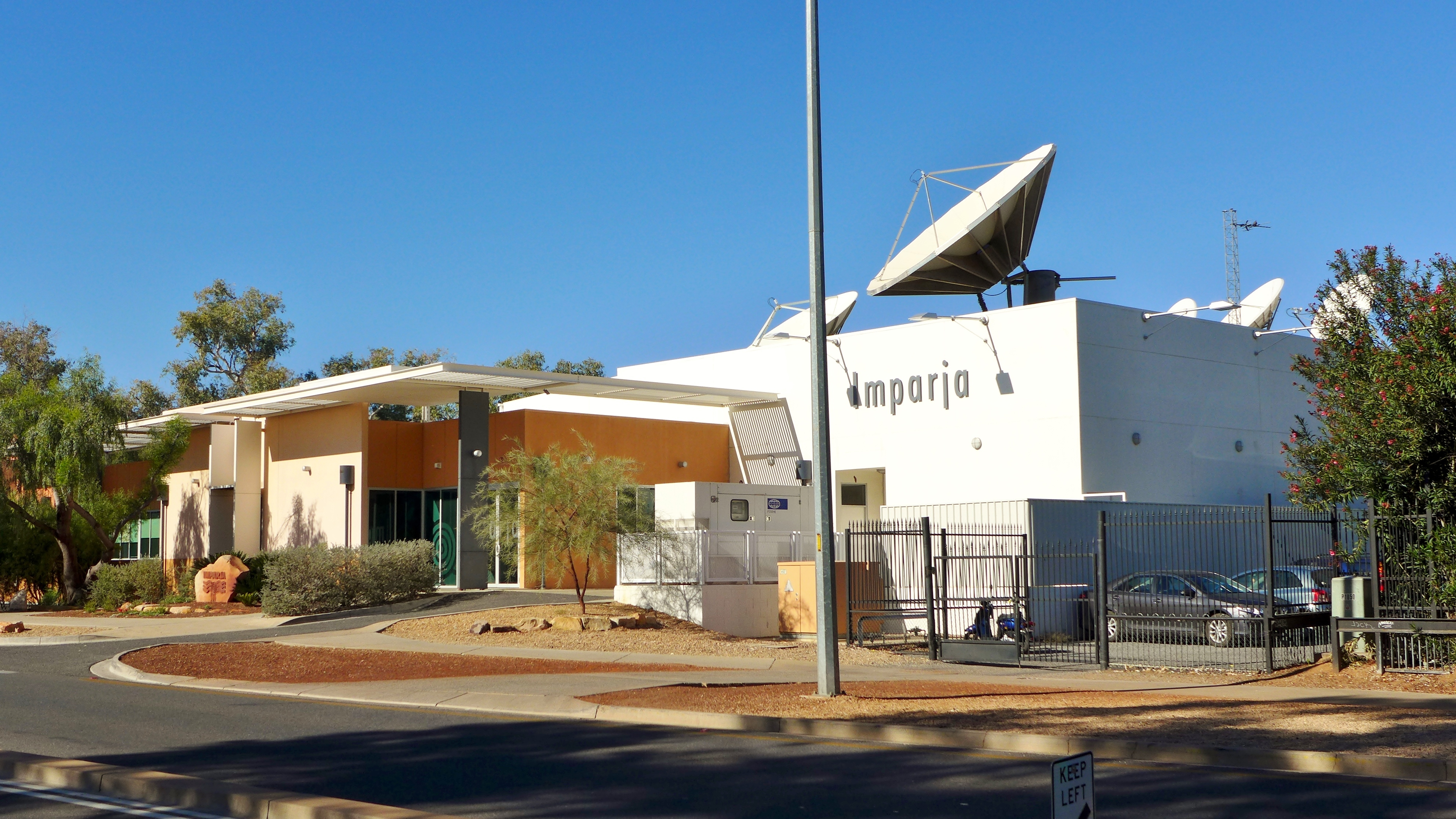 View of the headquarters of Imparja Television, Stott Terrace, Alice Springs, NT, Australia.